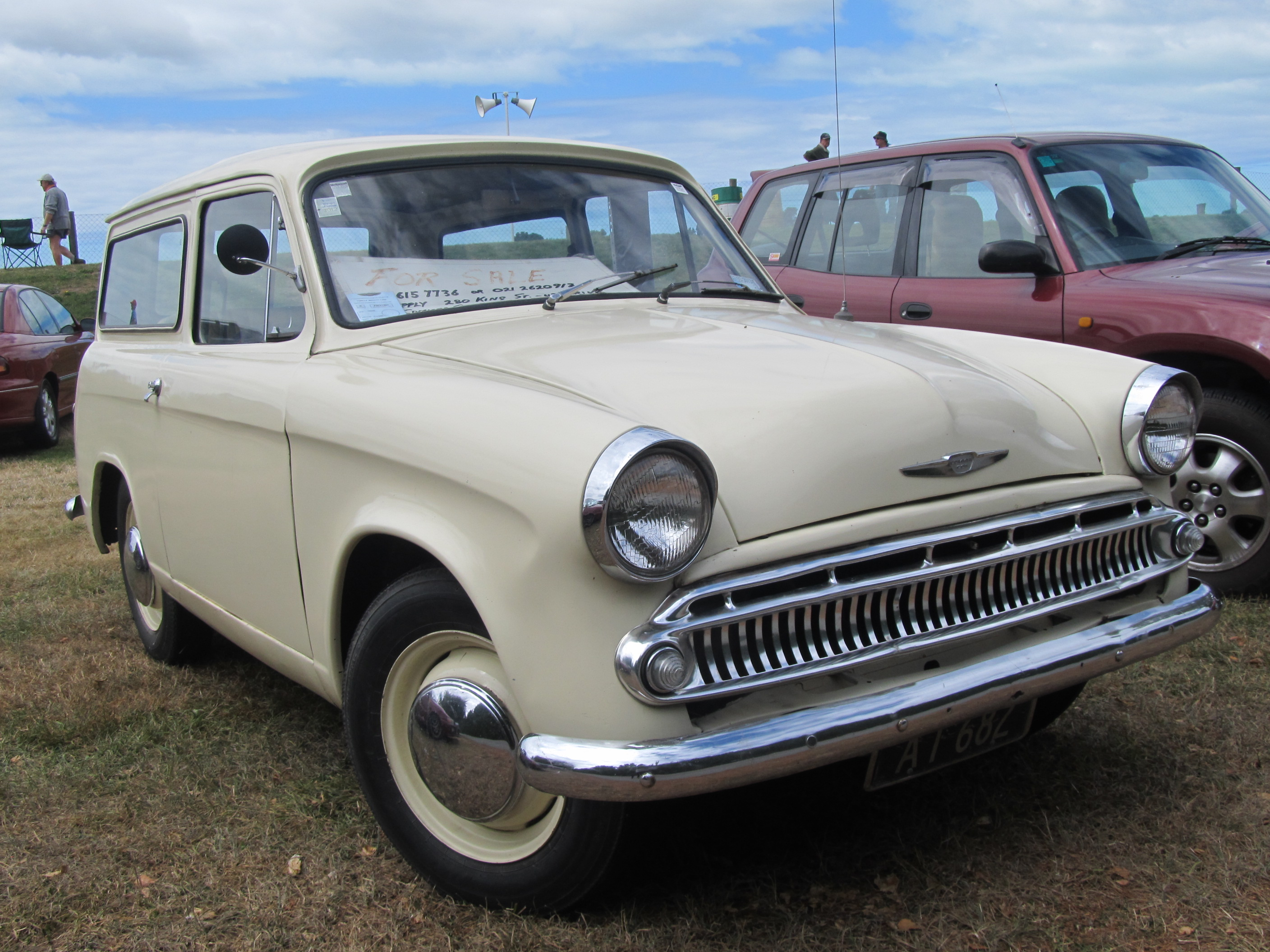 AI682 This is an exceptionally rare vehicle, as the Cob was only sold here in small numbers compared to the Hillman variant (the Husky). I always thought these looked quite neat and cute!